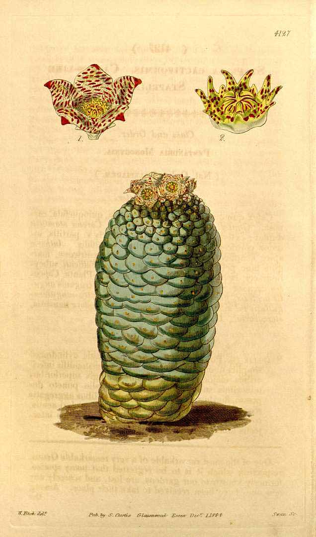 Lavrania cactiformis (Hook.) Bruyns [as Stapelia cactiformis Hook.] Curtis’s Botanical Magazine, t. 4048-4131, vol. 70 [ser. 2, vol. 17]: t. 4127 (1844) [W.H. Fitch]